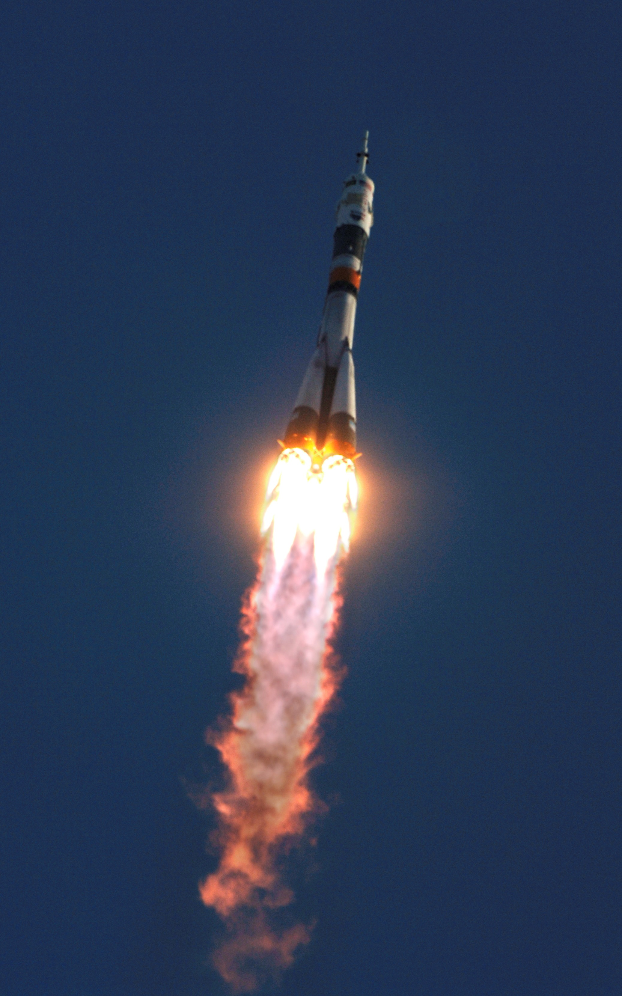 With the launch of a Soyuz rocket, cosmonaut Pavel V. Vinogradov, Russia's Federal Space Agency Expedition 13 International Space Station commander, and astronaut Jeffrey N. Williams, NASA International Space Station science officer and flight engineer, began their mission Wednesday at 9:30 p.m. EST, (Thursday, March 30, 2006, 8:30 a.m. Kazakhstan time). They launched aboard a Soyuz TMA-8 rocket from the Baikonur Cosmodrome in Kazakhstan. Joining them for several days as a Soyuz crew member before returning home with the Expedition 12 crew is astronaut Marcos Pontes, Brazilian Space Agency.